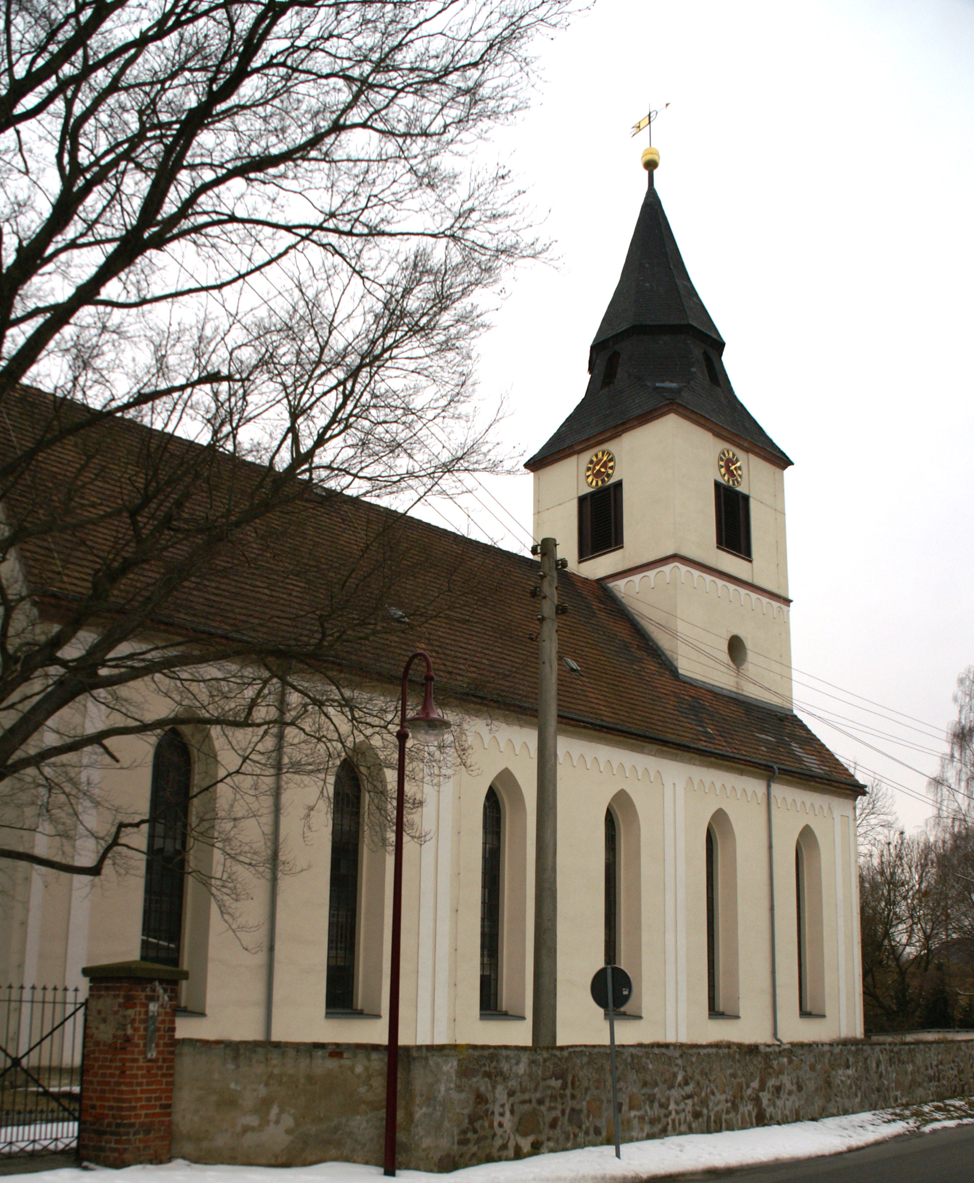 Church of Nobitz near Altenburg, Germany.